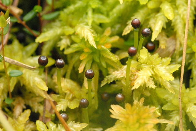 'Sphagnum spec. from Commanster, Belgian High Ardennes .